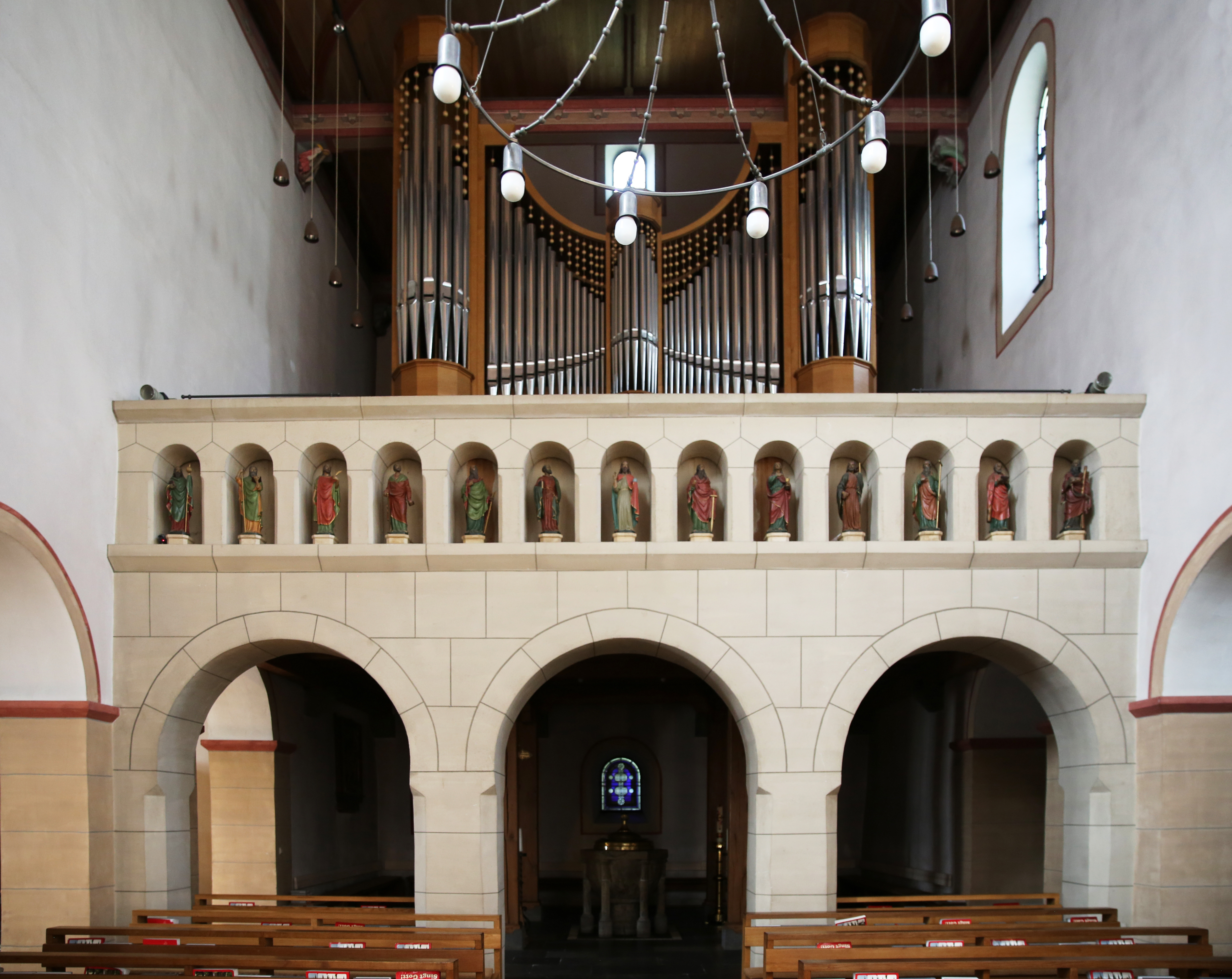 Organ loft and Pipe organs of the Catholic Parish Church of Saintt Walburga in Walberberg (Bornheim), Rhineland-Palatinate, Germany